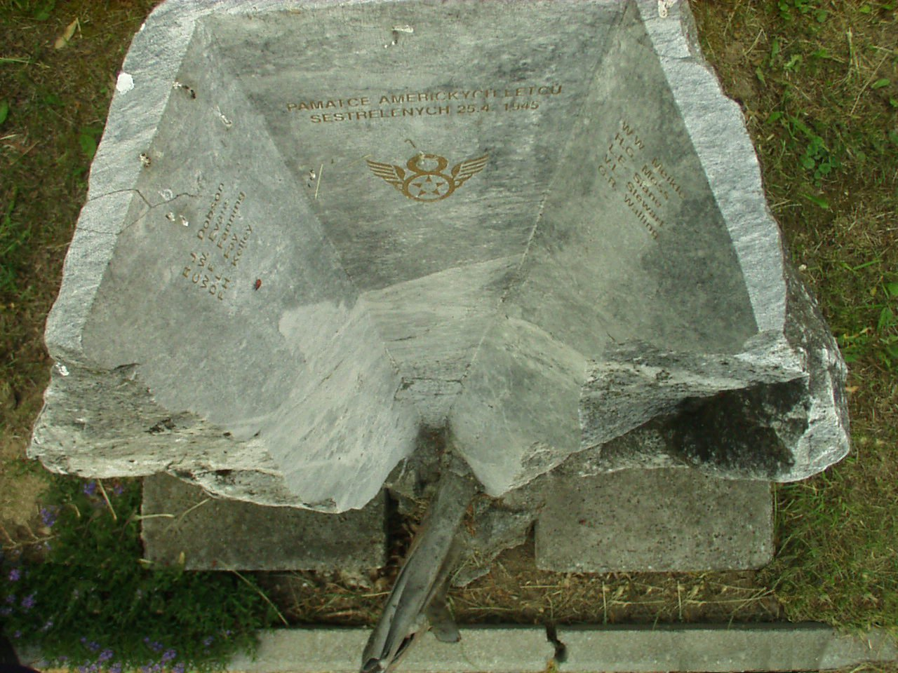 Křimice - memorial to killed American airmen